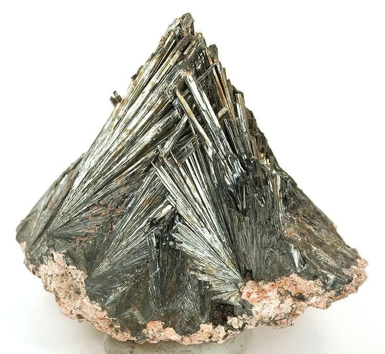 Pyrolusite Locality: Gremmelsbach, Triberg, Black Forest, Baden-Württemberg, Germany (Locality at ) Size: 6.9 x 6.7 x 5.0 cm. Splendent, acicular crystals of pyrolusite to 6.0 cm, in diverging, radiating sprays on granite matrix form an extremely showy, four-sided specimen from the Gremmelsbach area of the Black Forest, Germany. This area is renowned for its pyrolusite specimens. The note on the back of the German label indicates that the piece was found in 1976.